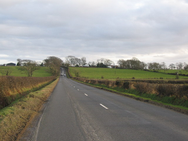 Kingside Hill. A view looking southeast along the B5302 towards Kingsidehill bridge and the buildings of the hamlet of Kingside Hill on the skyline.